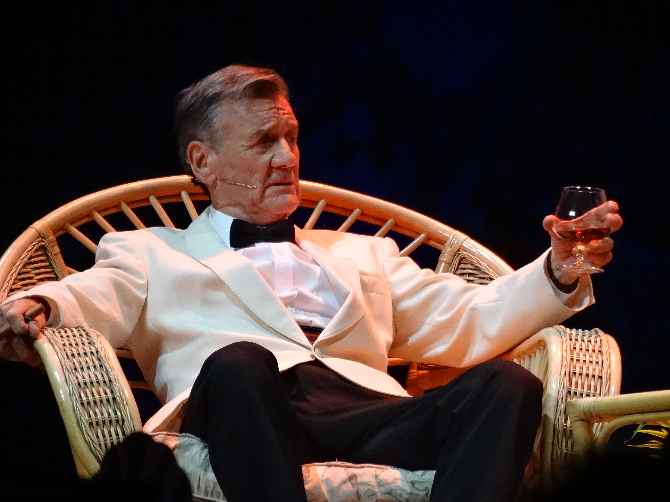 Michael Palin performing the "Four Yorkshiremen" sketch during the Monty Python Live (Mostly) show.